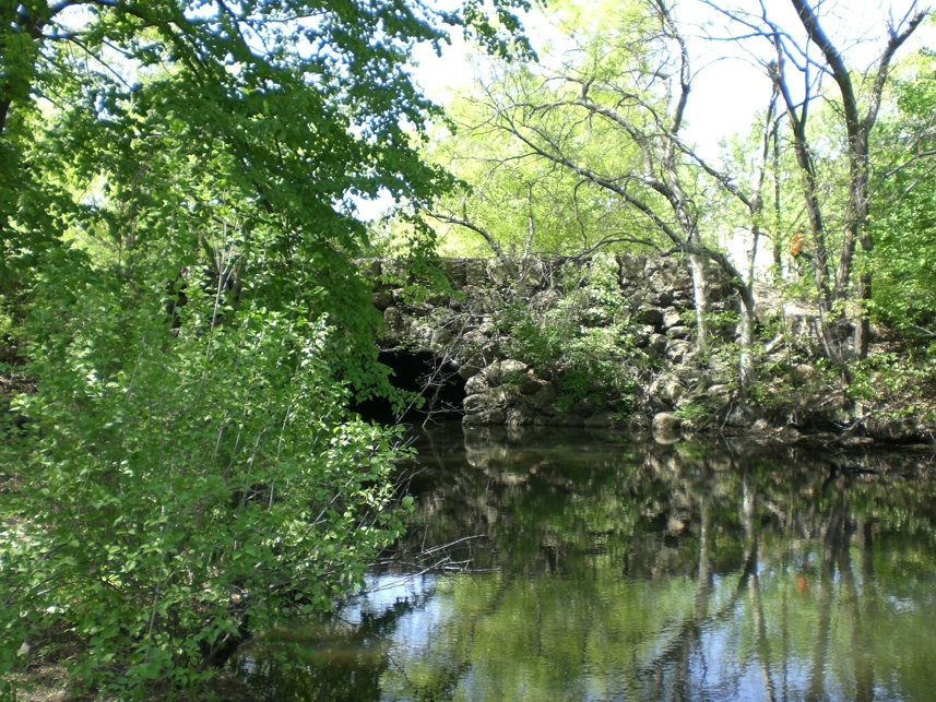 Aggasiz Road stone bridge inside the Back Bay Fens in Boston.